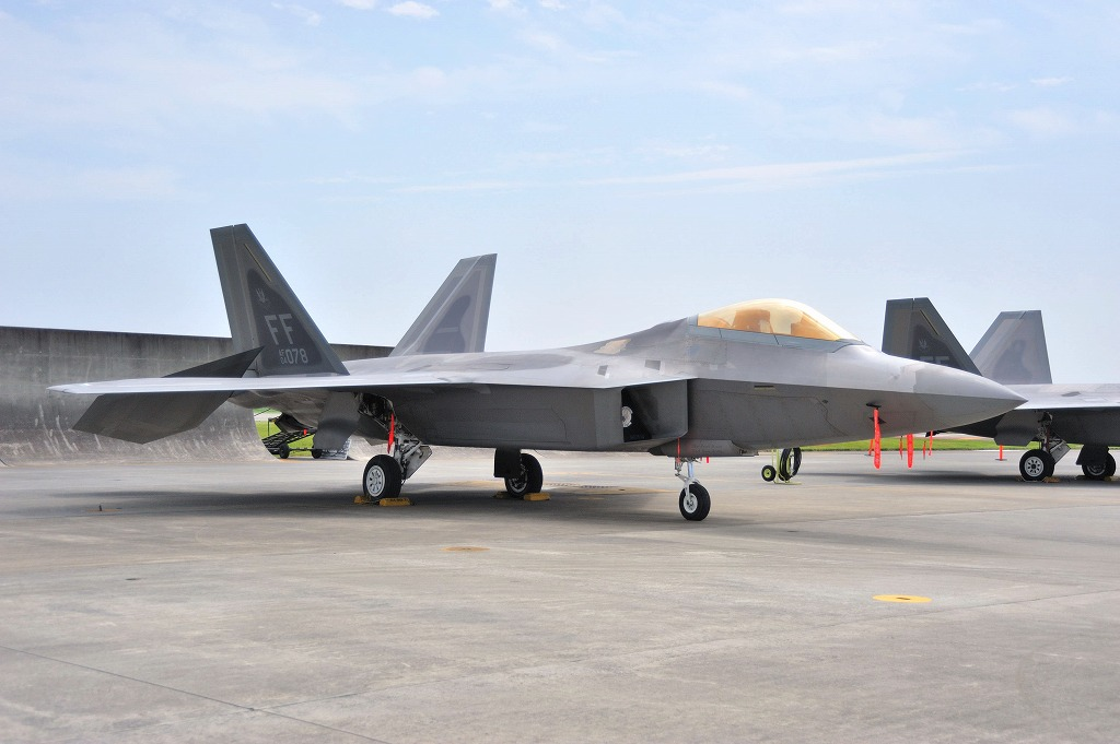 USAF F-22 Raptor at yokota AB